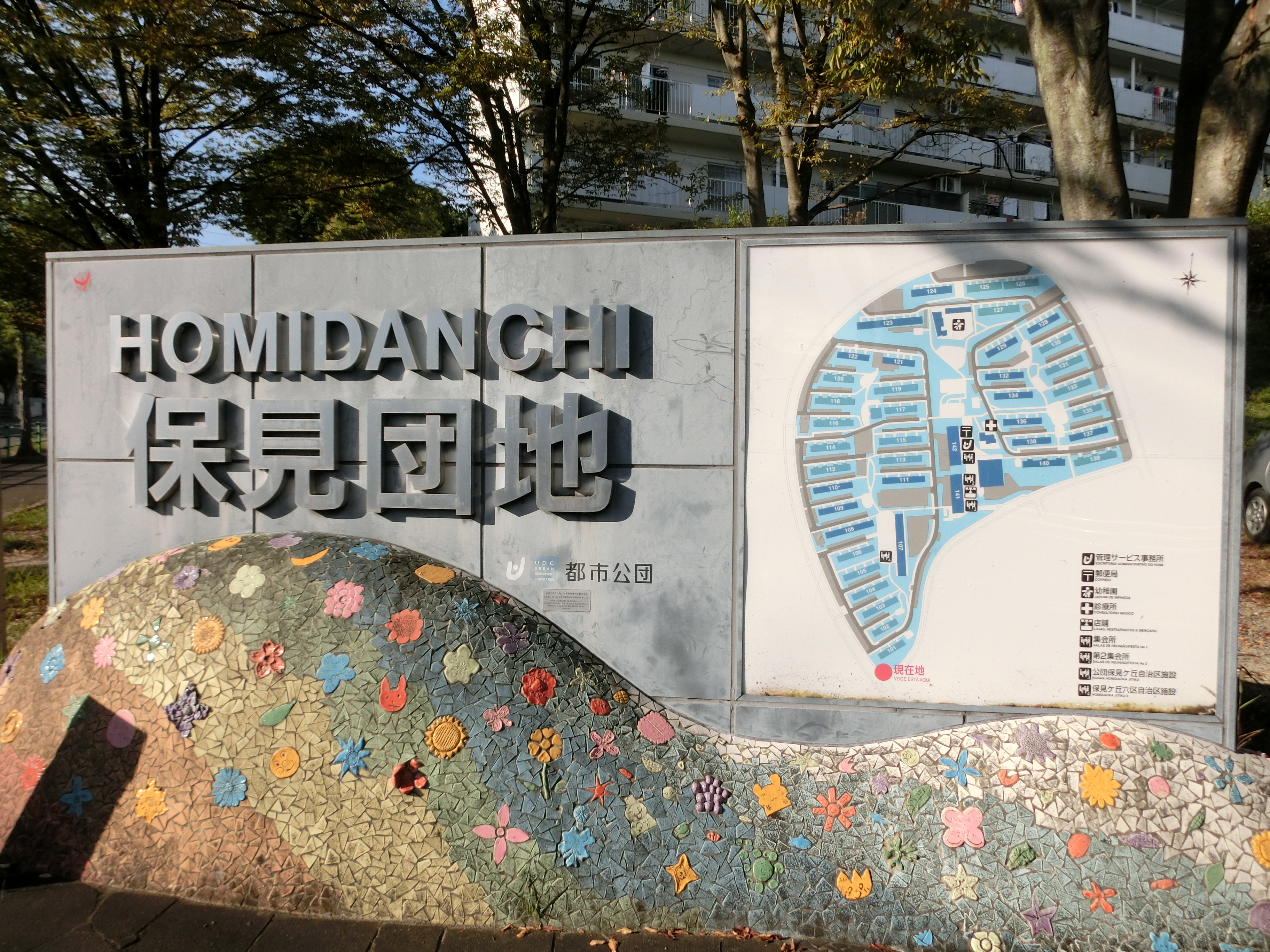 Homi Danchi